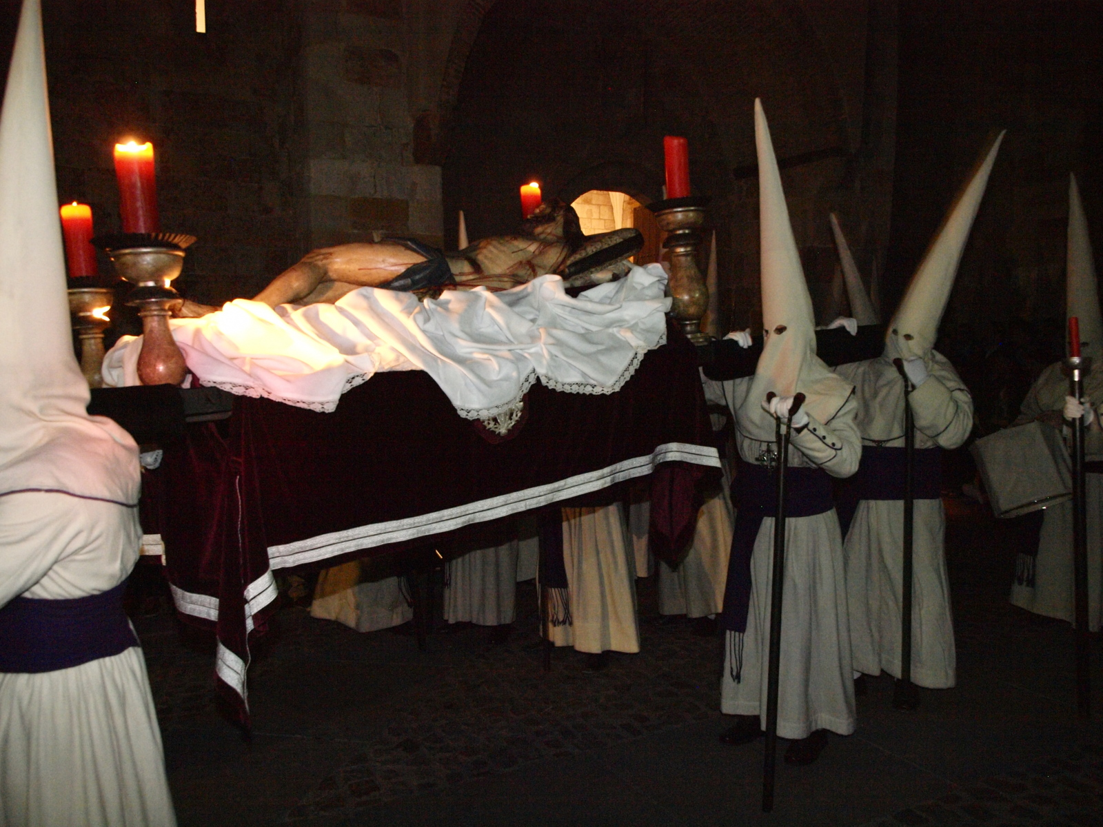 Beginning of the parade of the religious brotherhood of Lying Jesus (Penitente Hermandad de Jesús Yacente), Zamora, Spain, Holy Week